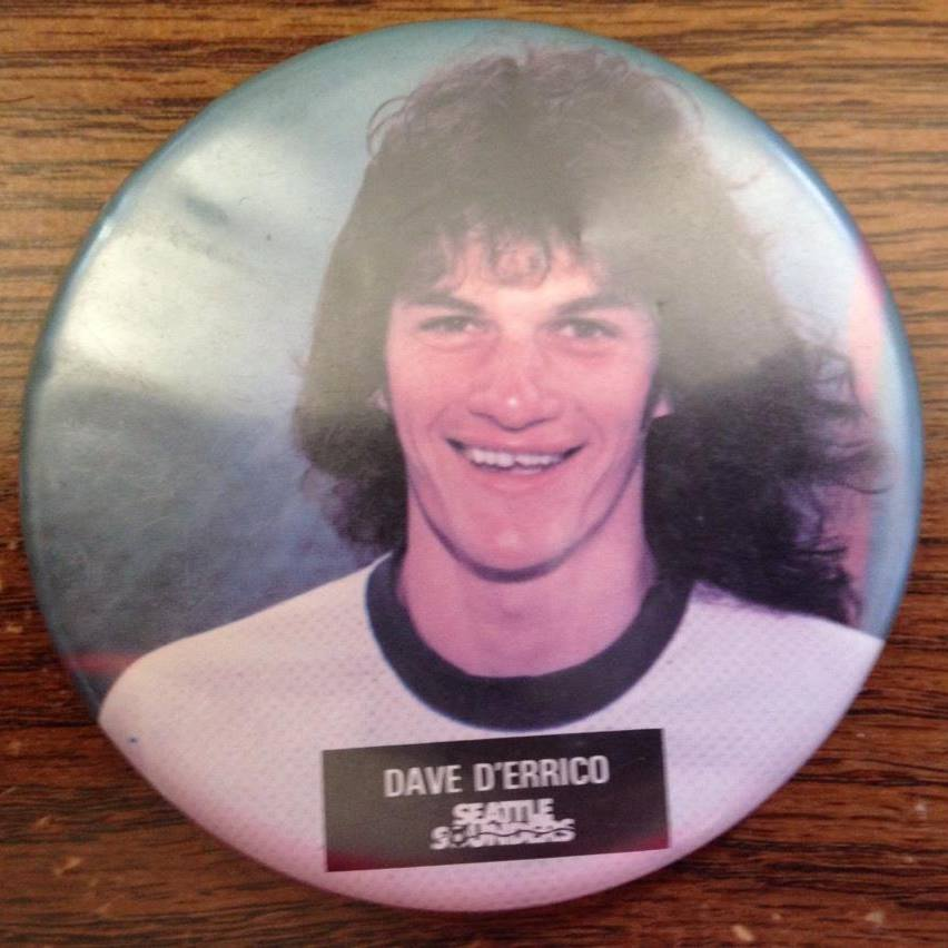 A photo of David "Dave" D'Errico Seattle Sounders pin